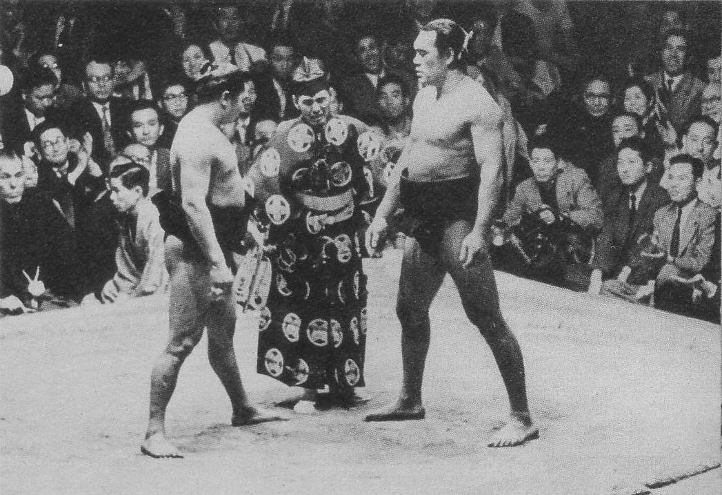 Wakanohana Kanji I VS Chiyonoyama Masanobu, Aki (Autumn) Basho in 1955. This Torikumi ended in a draw.